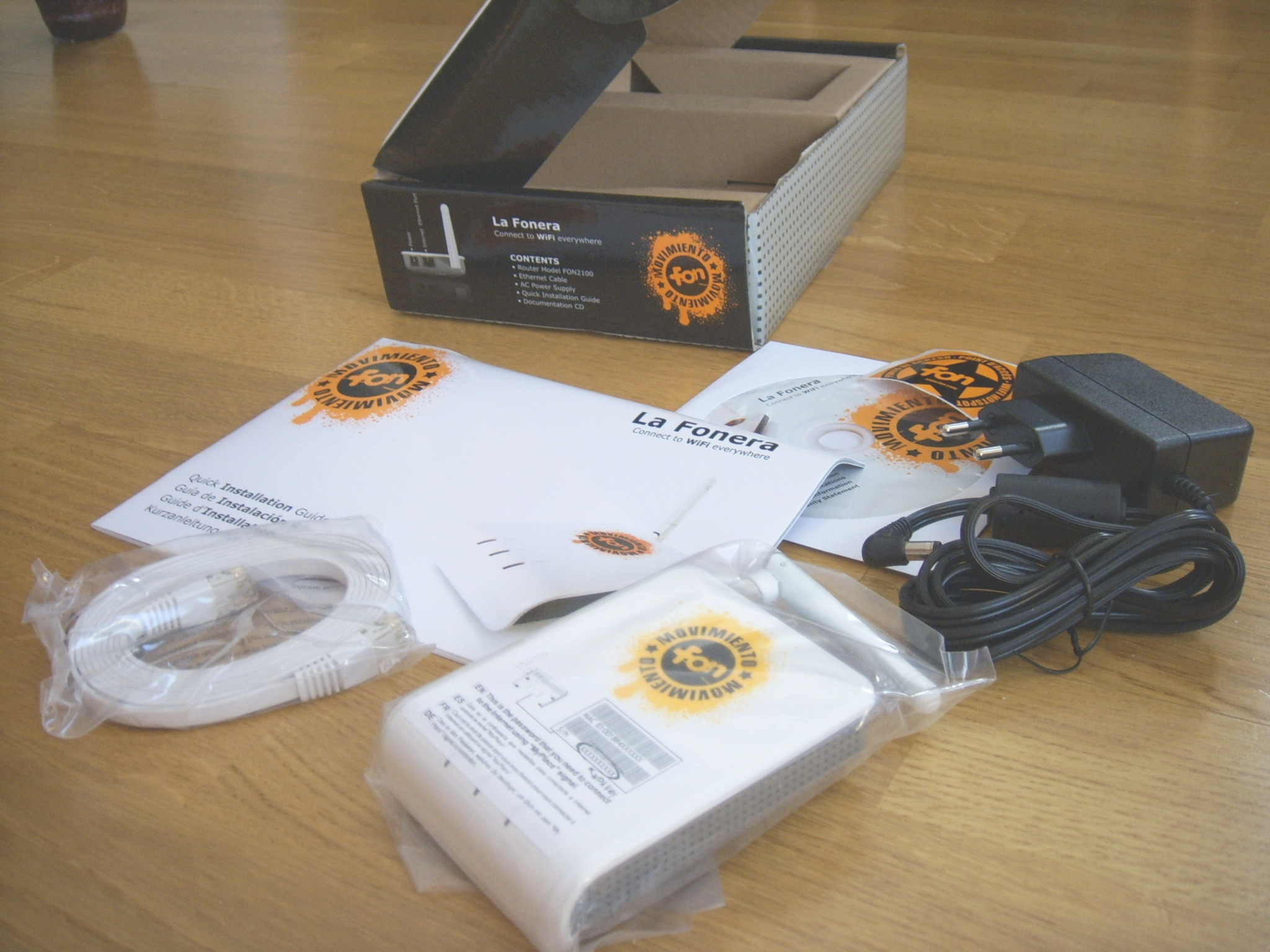 A photograph showing a "La Fonera" wireless router (model number FON2100), original packaging and accessories. The power connector is of a common European type.